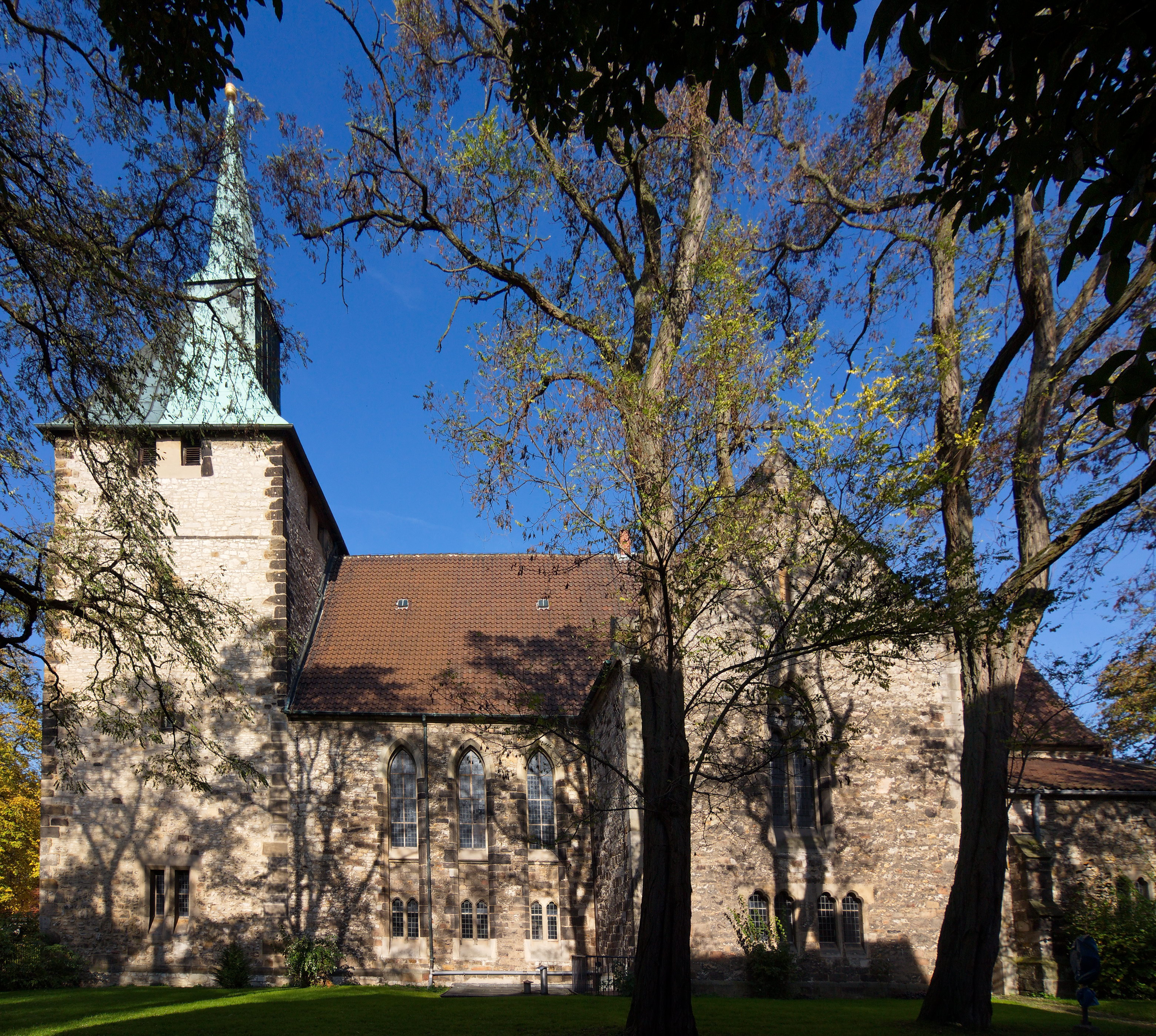 St. Nicolai-Kirche in Sarstedt, Niedersachsen, Deutschland